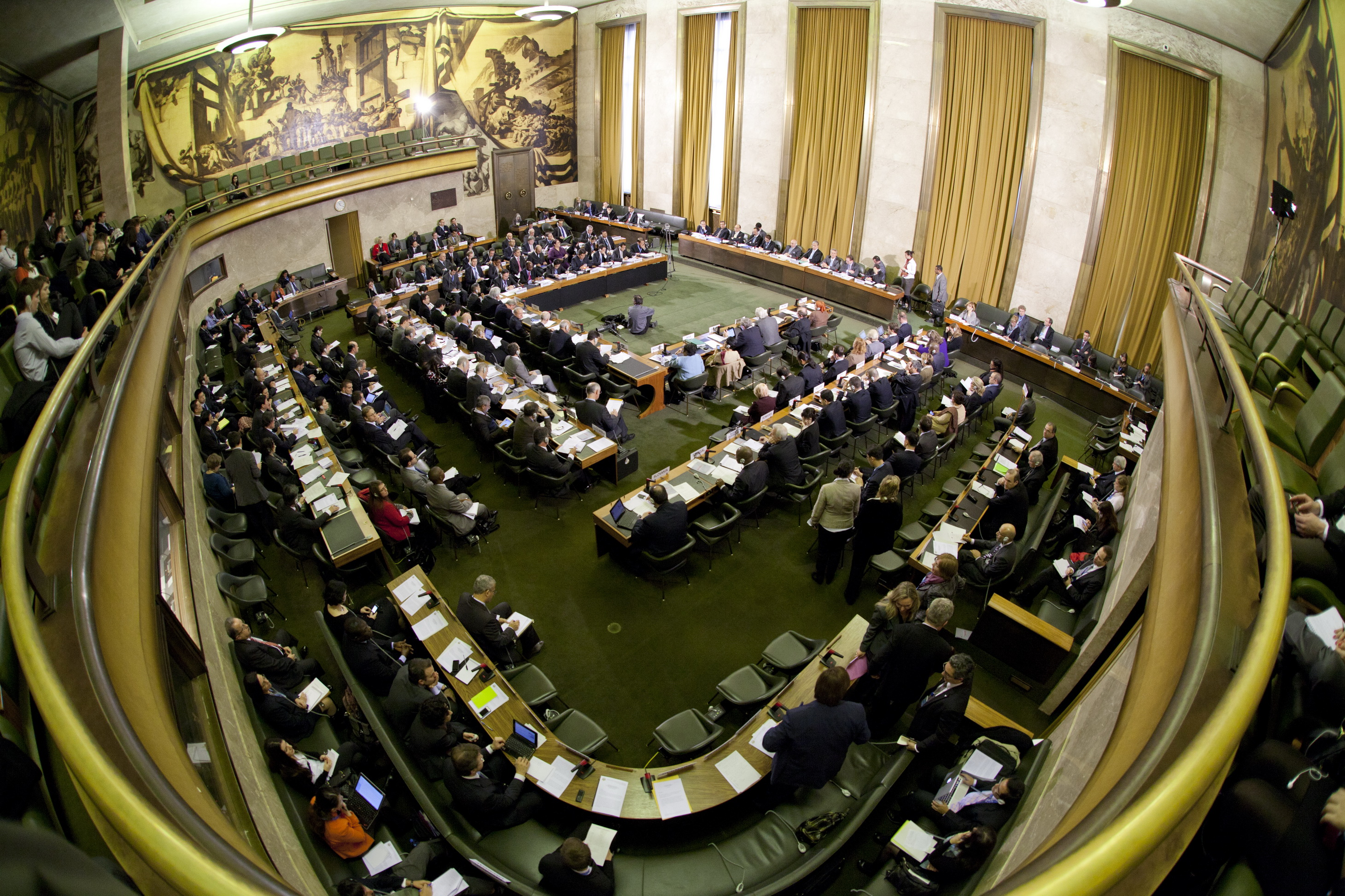 The Council Chamber at the United Nations in Geneva where the Conference on Disarmament (CD) holds its meetings. Visit the Homepage of the U.S. Mission to the Conference on Disarmament: Photo U.S. Mission by Eric Bridiers